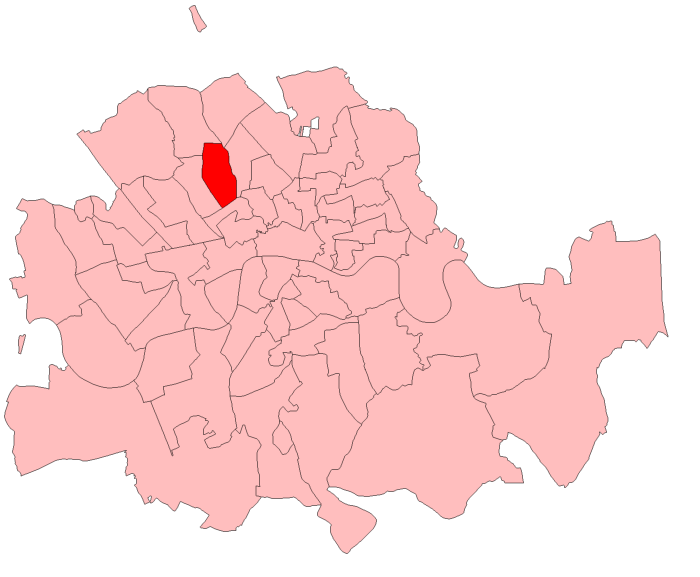 A map of St Pancras East constituency within the Metropolitan Board of Works area, as it existed from 1885 to 1918.